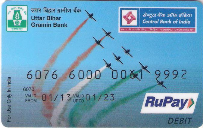 RuPay-Card Issued by Uttar Bihar Gramin Bank, Sponsored by Central Bank of India